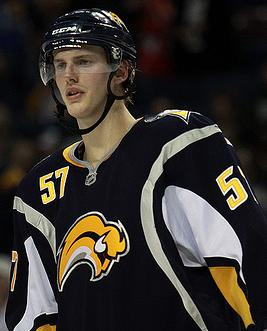 Tyler Myers during a Buffalo Sabres game.